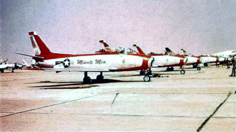 U.S. Air Force North American F-86F Sabre fighters from the "Minute Men" aerobatics team of the Colorado Air National Guard. The team existed unofficially from 1953 to 1956, flying Lockheed F-80Cs. Members of the Colorado Air National Guard's Minute Men put on aerial shows in their F-86s beginning in 1954, and from 1956 until 1959, they served as the National Guard Bureaus official aerial demonstration team representing all ANG units. The "Minute Men" performed in 47 U.S. states, as well as the territories of Hawaii and Alaska, Nicaragua, Panama, Guatamala City, Mexico City, and Kingston (Jamaica). In 1959 it was disbanded out of budgetary reasons.